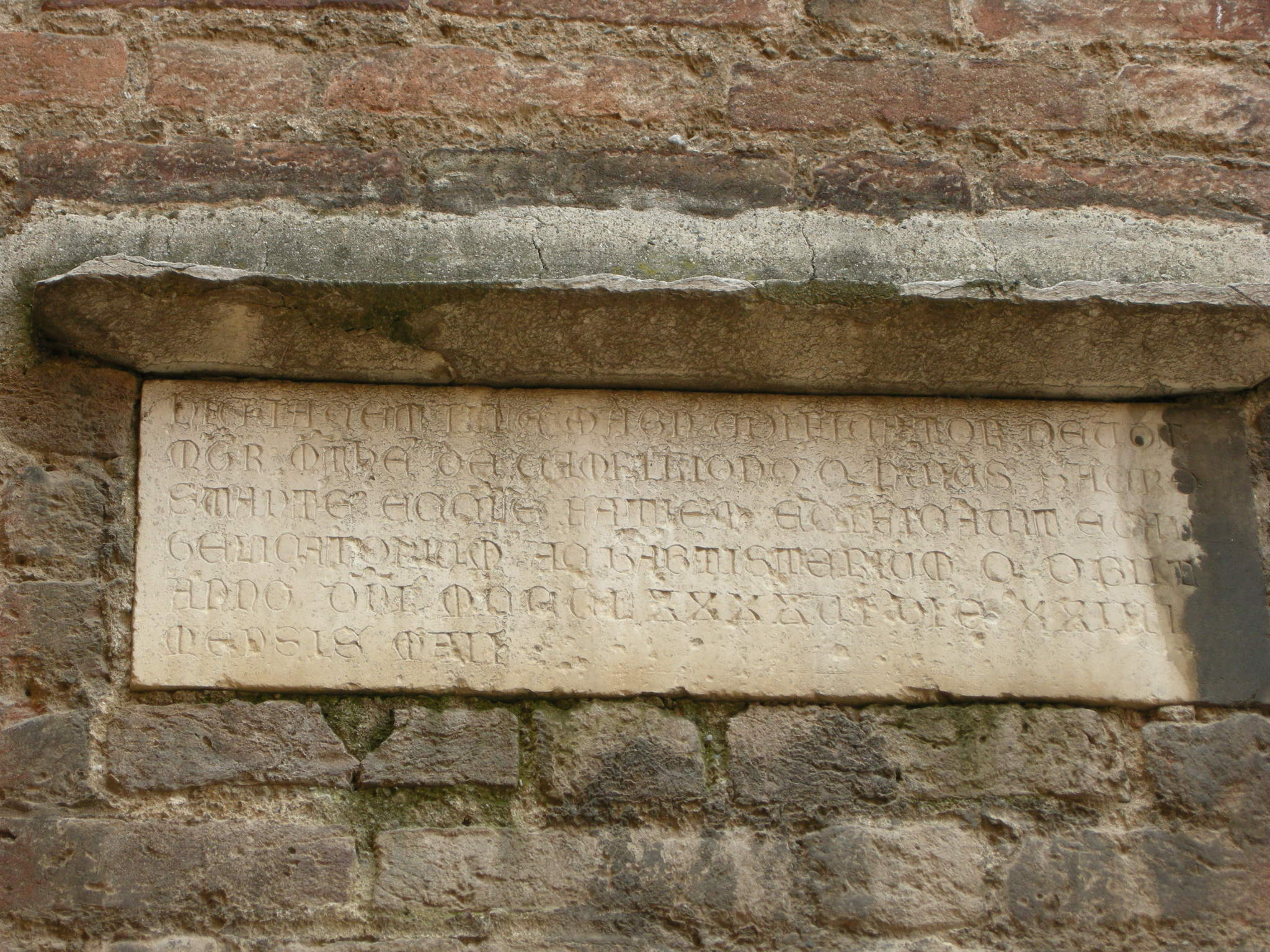 HIC IACET ILLE MAGN(US) EDIFICATOR DEVOT(US) M(A)G(ISTE)R M(A)THE(US) DE CAMPIOLIONO Q(UI) HIUS SACRO STANTE ECCL(ESI)E FATIEM EDIFICAVIT EVAN GELICATORIUM AC BABTISTERIUM Q(UI) OBIIT ANNO D(OM)INI MCCCLXXXXVI DIE XXIIII MENSIS MAII